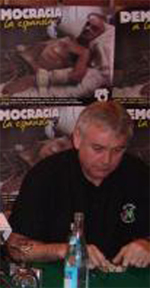 Summary Bic McFarlane Donostian